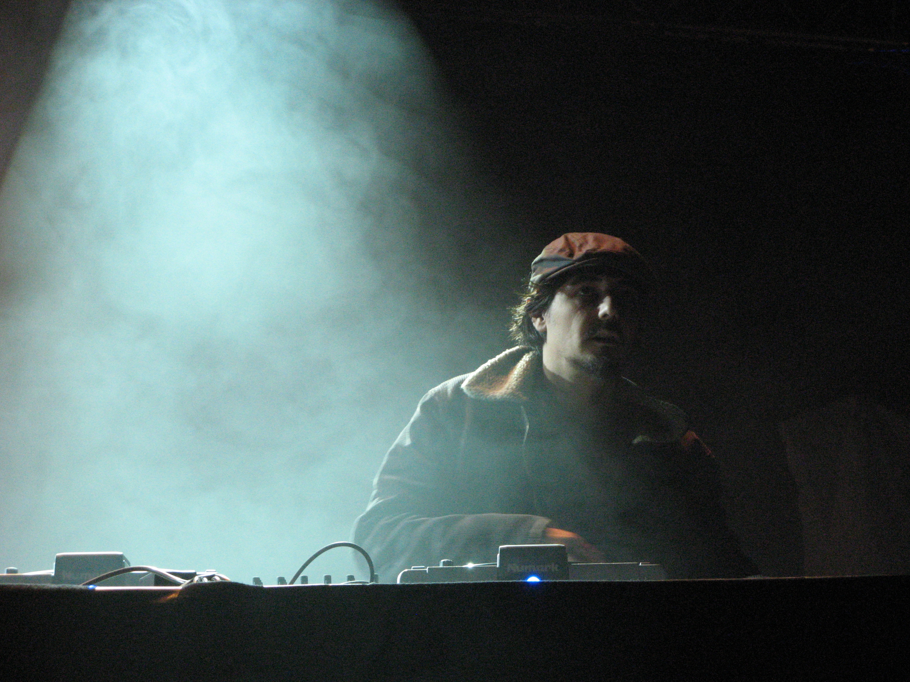 Brazilian DJ Amon Tobin before his 7.1 Surround Sound DJ set at Rotonde 2 in Luxembourg City, 8th December 2007.